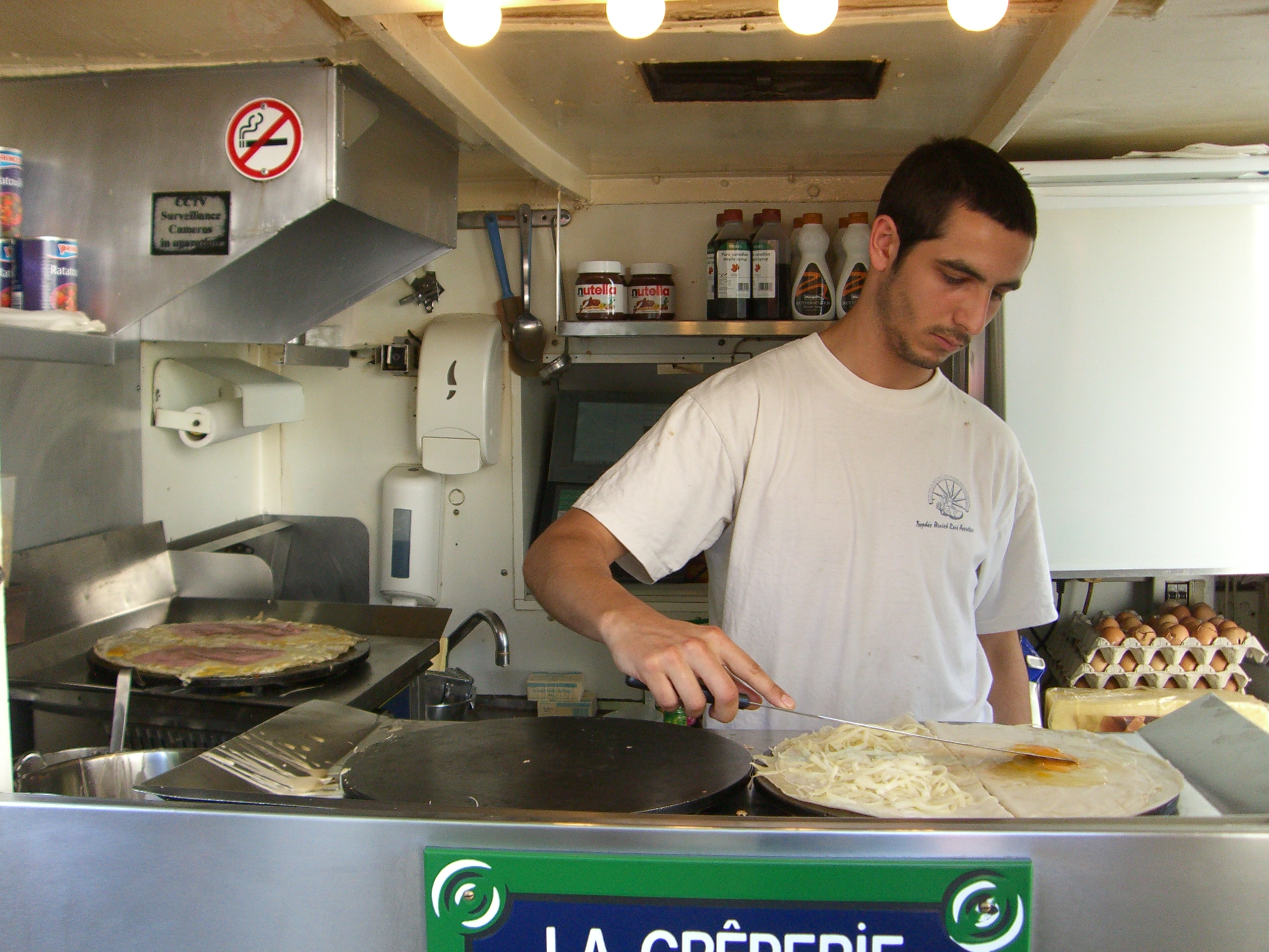 "La Crêperie de Hampstead", London - A crêpe engineer smearing some yummy ingredients on his masterpiece.